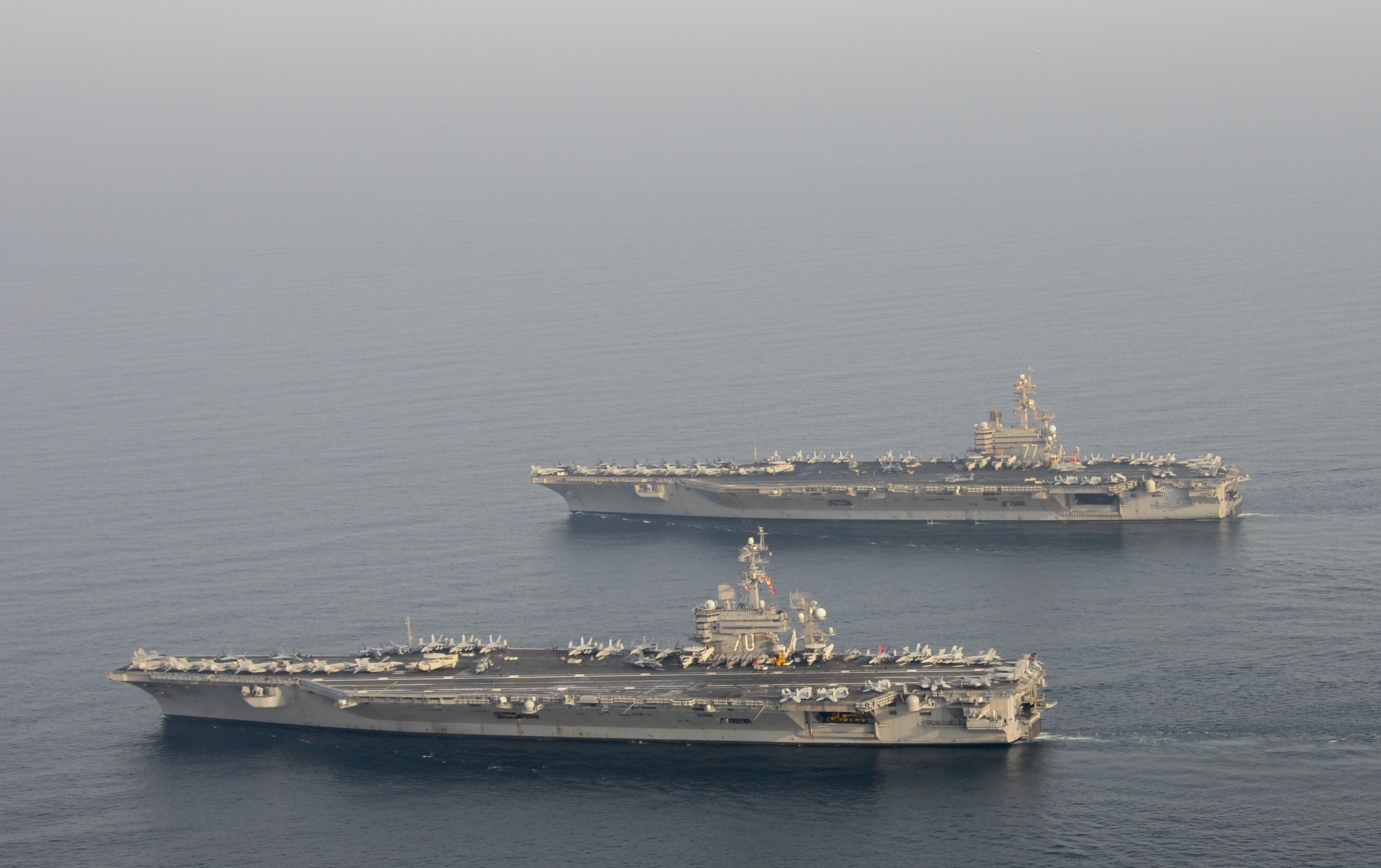 The U.S. Navy aircraft carrier USS Carl Vinson (CVN-70), bottom, relieves USS George H.W. Bush (CVN-77) in the Persian Gulf. George H.W. Bush later departed the U.S. 5th Fleet area of responsibility for its homeport at Norfolk, Virginia (USA), and Carl Vinson took over support of maritime security operations, strike operations in Iraq and Syria as directed, and theater security cooperation efforts in the U.S. 5th Fleet area of responsibility.